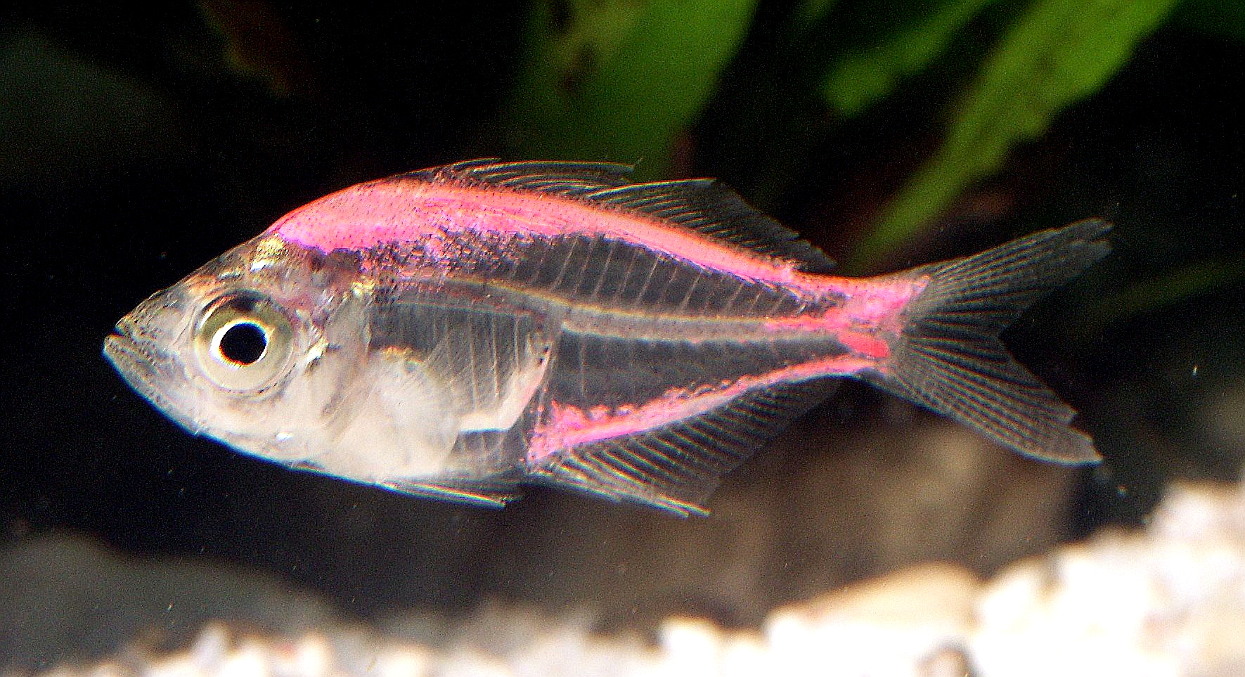 quoted from Image:Painted Indian Glassy Fish.jpg: "Painted or Dyed Indian Glassy Fish, Parambassis ranga. Pink version shown. These fish are artificially injected with dye to give this fish some colour. You get blue, cyan, green, pink, etc. versions. The colour fades within 6 months. This image was taken by --Quatermass 14:07, Dec 21, 2004 (UTC)"